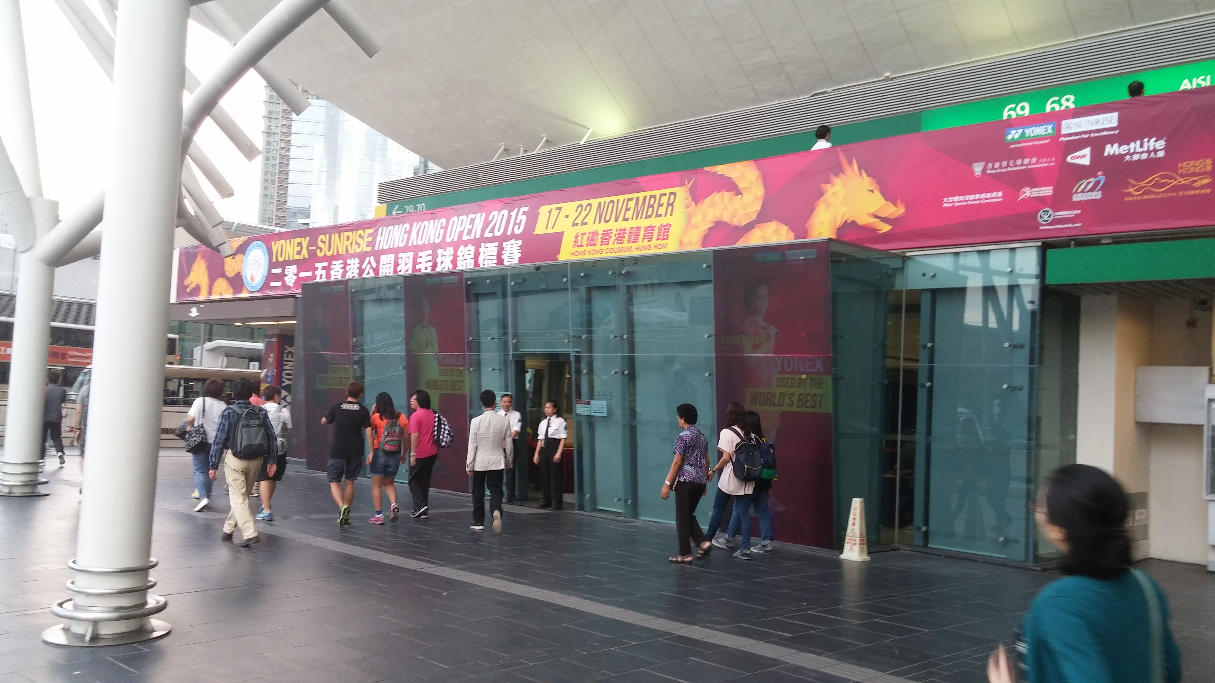 The Venue of Hong Kong Open Badminton Championships 2015 - Hong Kong Coliseum